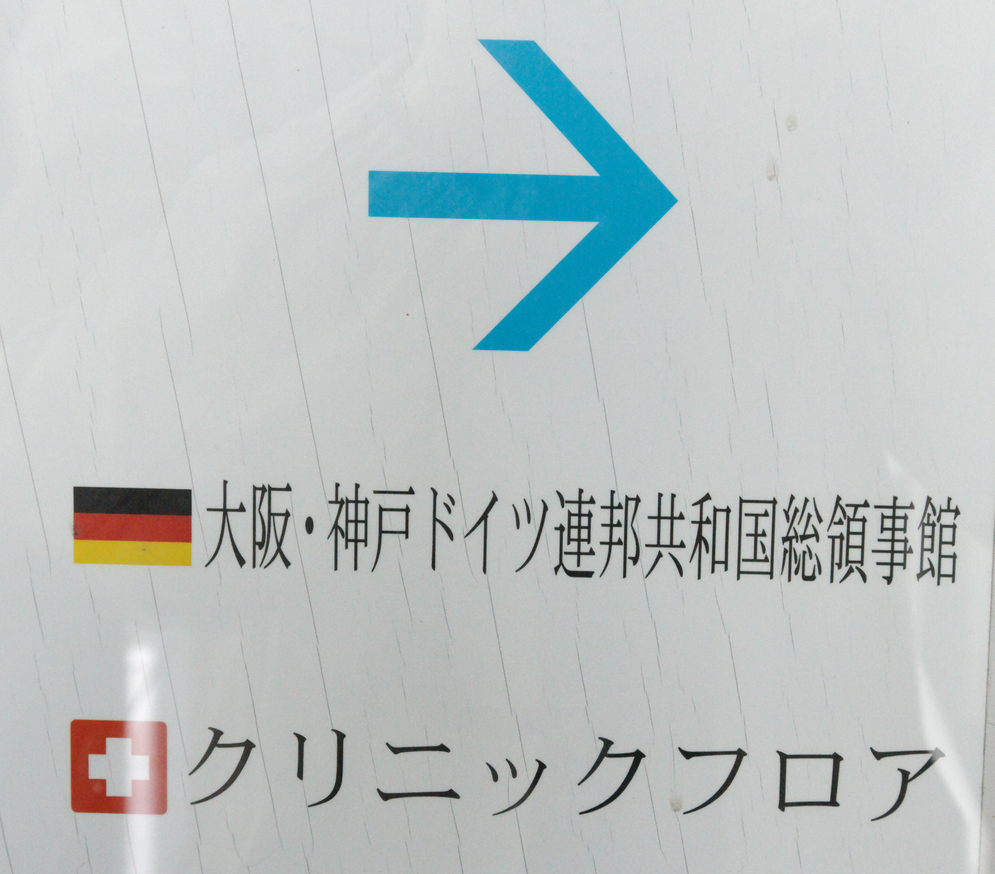 The consulate of Germany and the honorary consulate general of Switzerland are in the building.